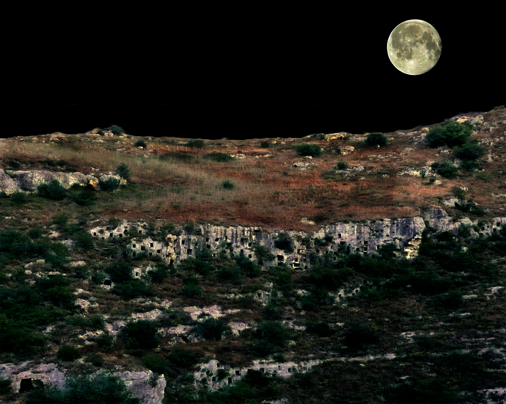 Pantalica dream